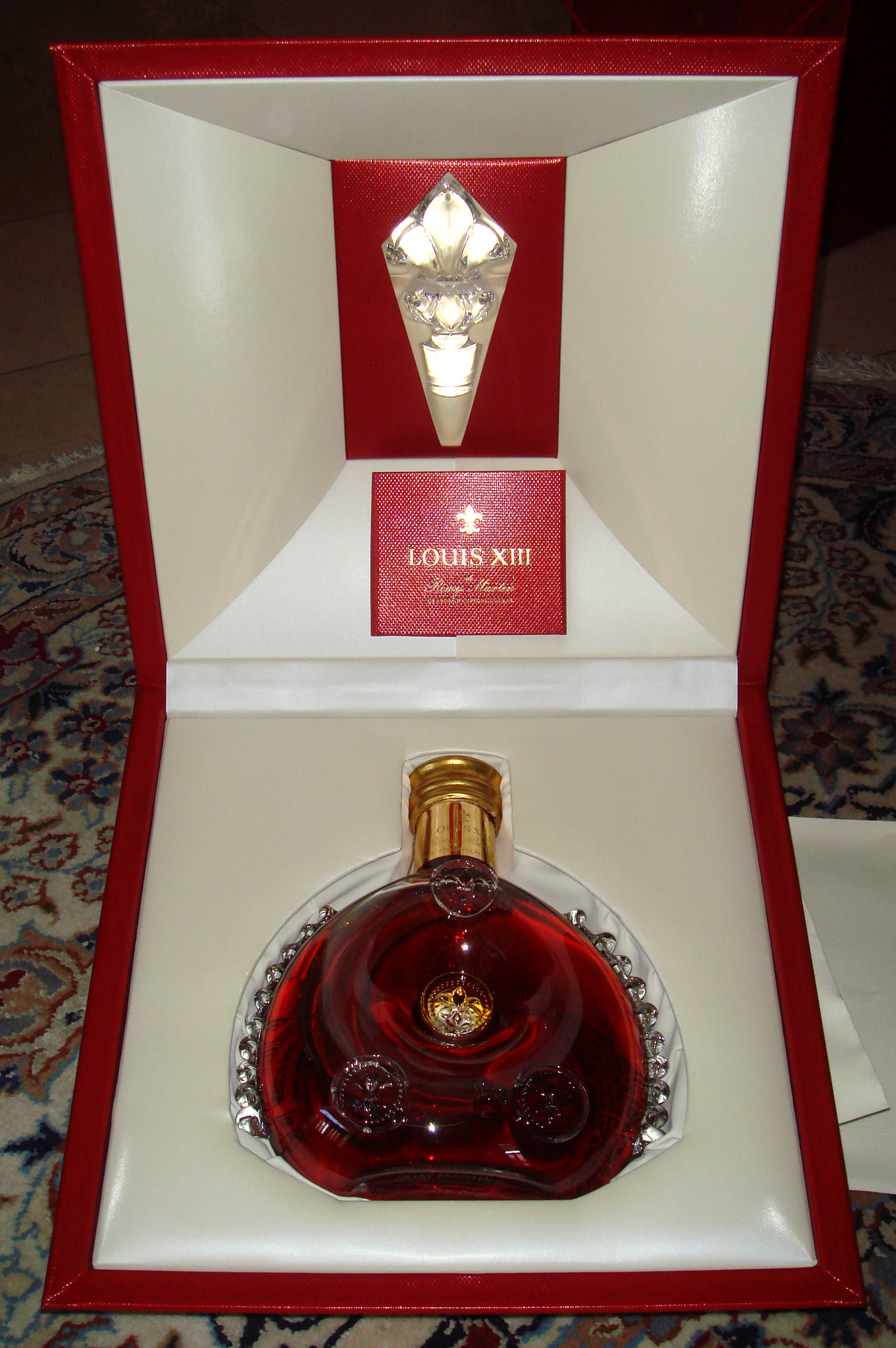 A bottle of Louis XIII de Rémy Martin, in its case.